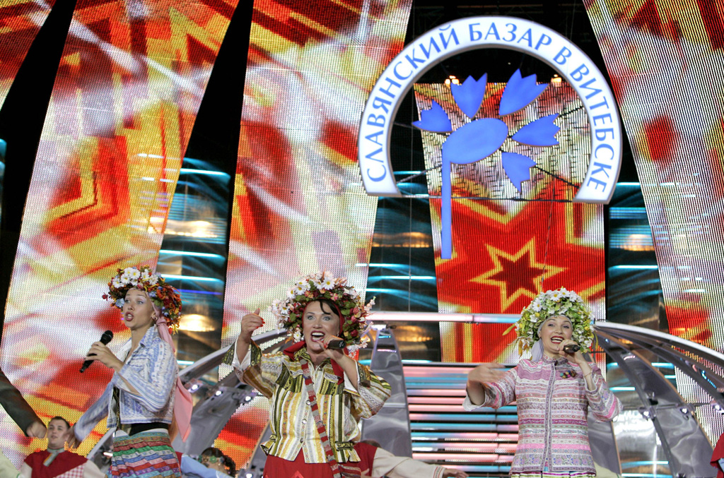 “The 17th International Slavic Bazaar Music Festival in Vitebsk”. Nadezhda Babkina (center) and Russian Song company performing during the the Day of Russian Culture event held in the framework of the International Slavic Bazaar Music Festival in Vitebsk.